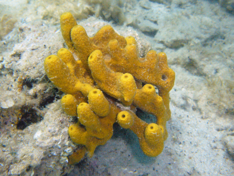 Aplysina aerophoba, Vodice, Croatia